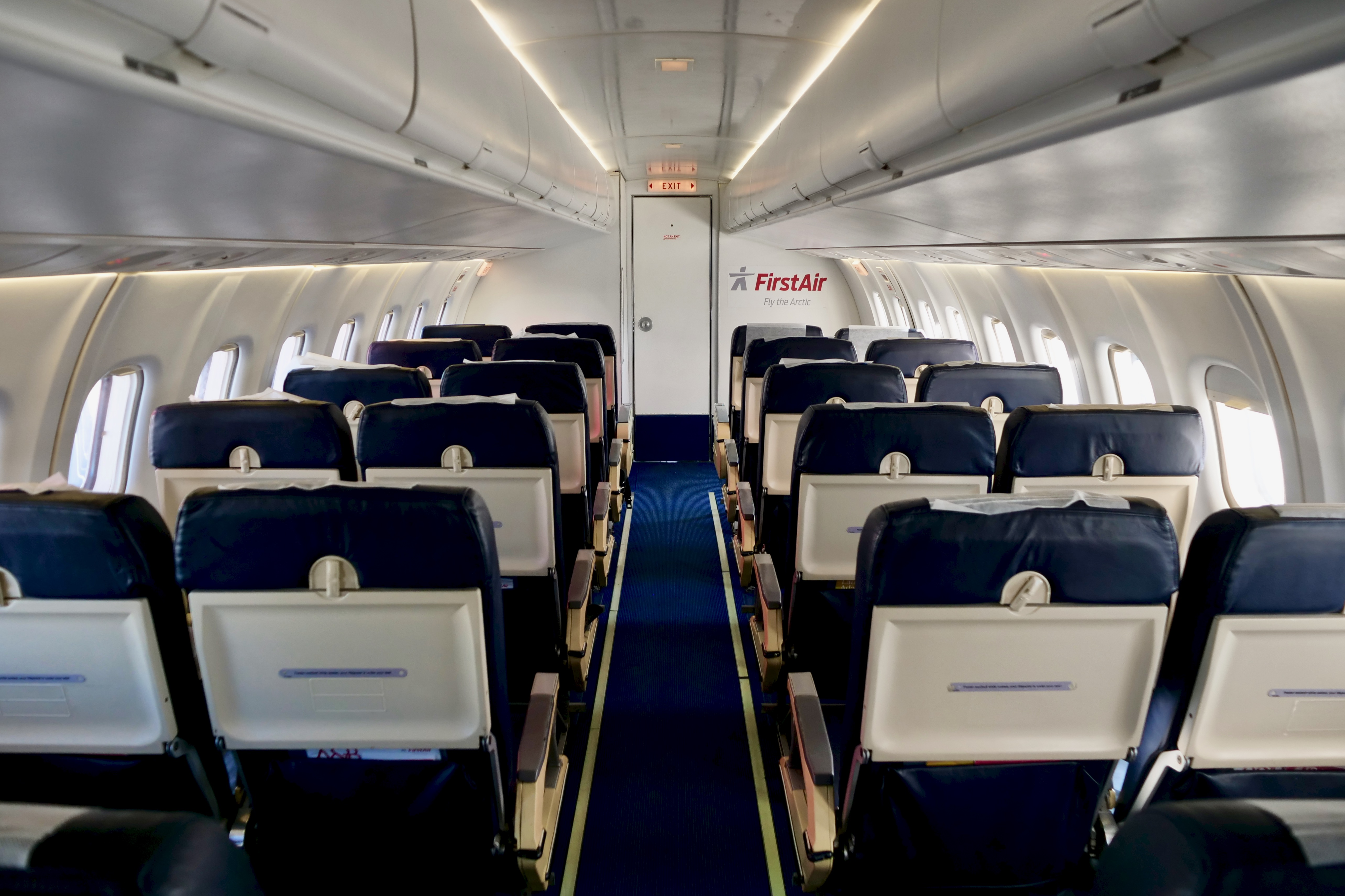 The interior of a First Air ATR-42